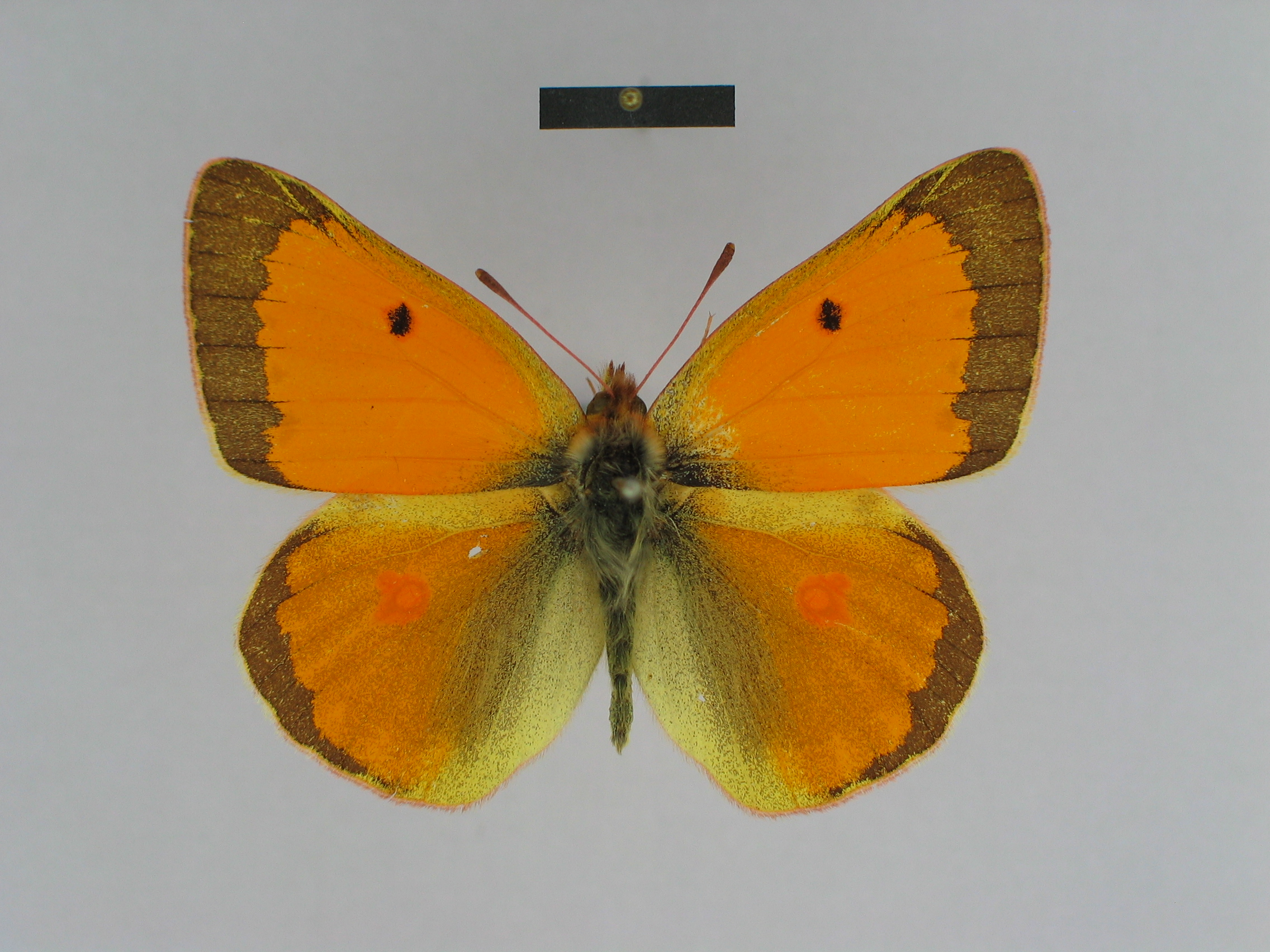 Syntype of the species Colias thisoa aeolides from the collection of the Zoological Museum of the Zoological Institute of the Russian Academy of Sciences (Berlin); ♂ dorsal side; scalebar=1 cm